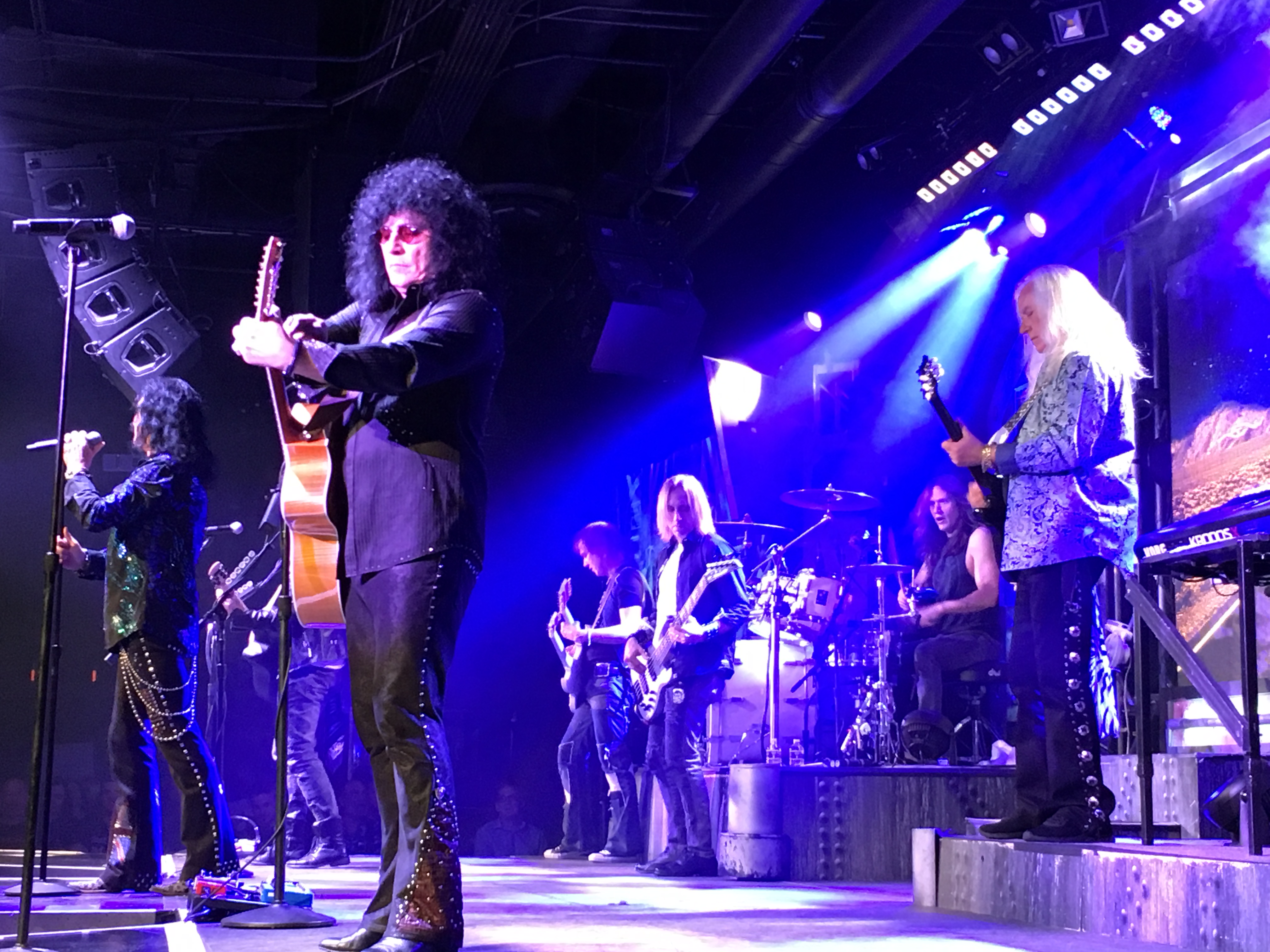 A performance of Raiding the Rock Vault at the Hard Rock Hotel & Casino Las Vegas in 2019, featuring (from left to right): Robin McAuley Paul Shortino Rowan Robertson Christian Brady Blas Elias Howard Leese